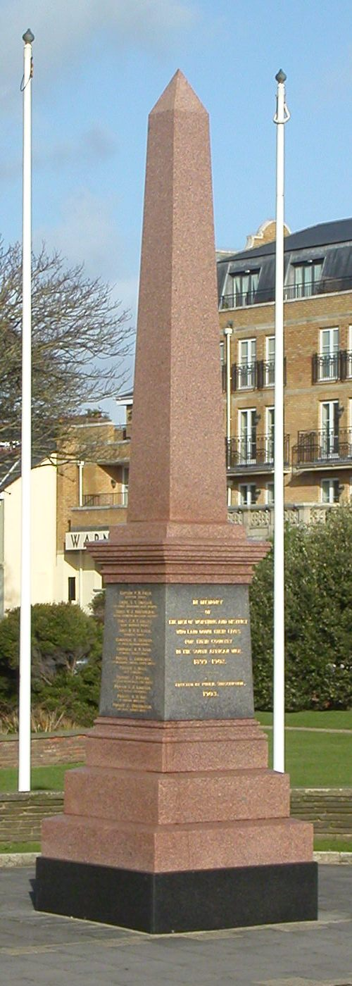 Memorial commemorating victims of the Second Boer War (1899–1902), located at the south (seafront) end of The Steyne, Worthing, West Sussex, England. Listed at Grade II by English Heritage (IoE Code 433055)